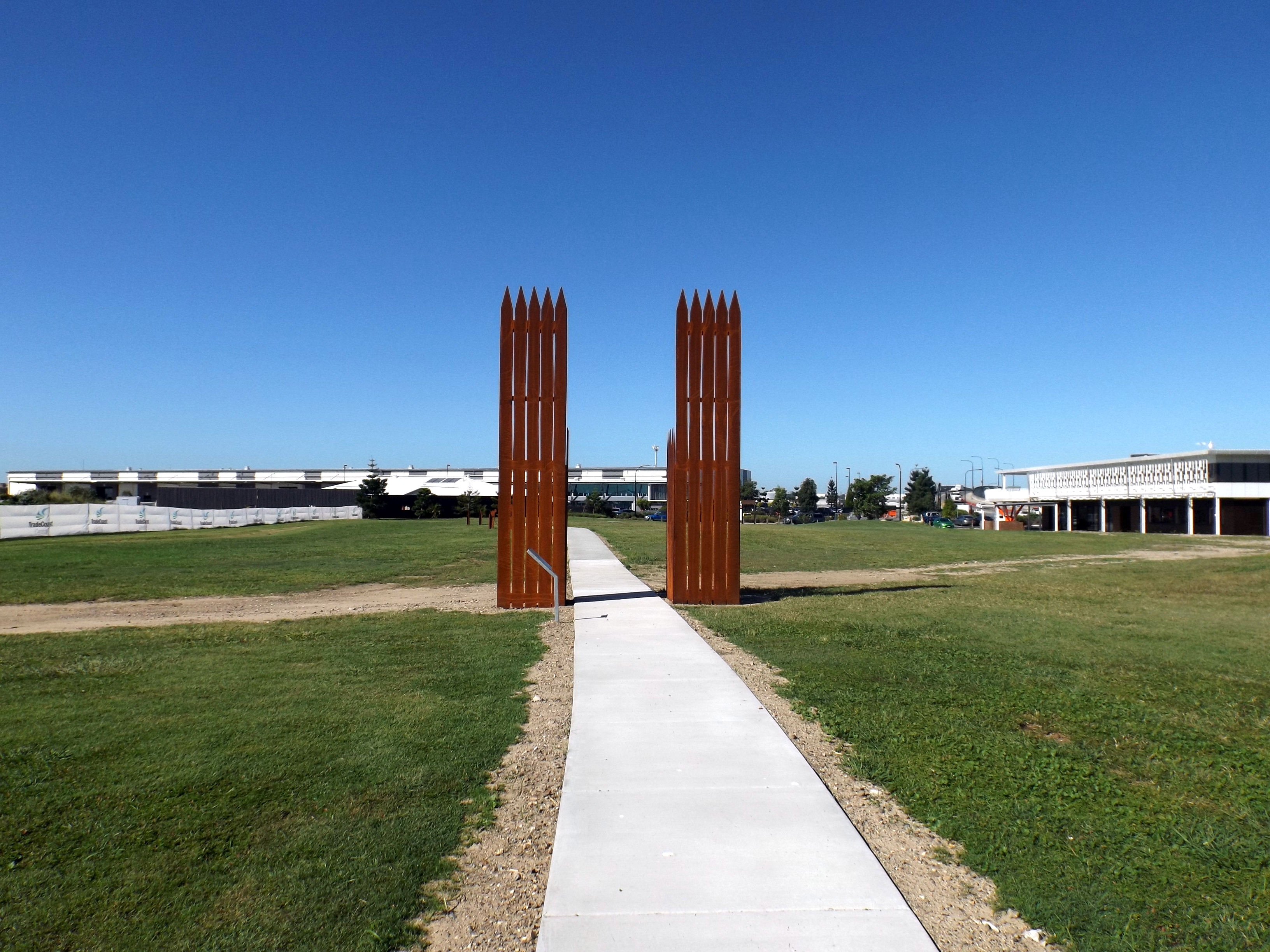 Photo of the Eagle Farm Women's Prison and Factory Site at Eagle Farm, Brisbane, Queensland, Australia.